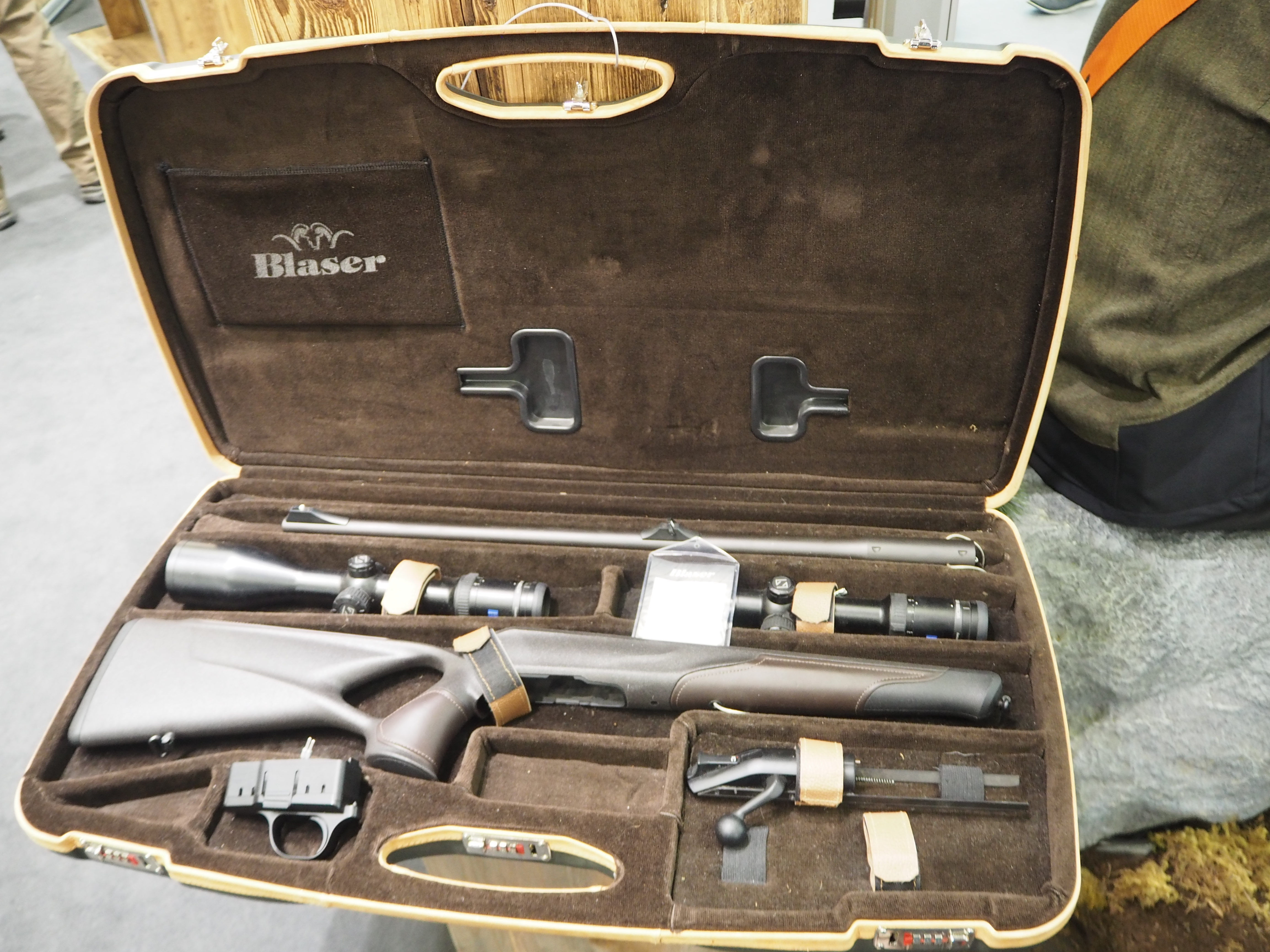 A Blaser R8 disassembled in a transportation case, shown at the exhibition "Messe Jagen und Fischen" 2017 in Augsburg, Bayern, Germany.